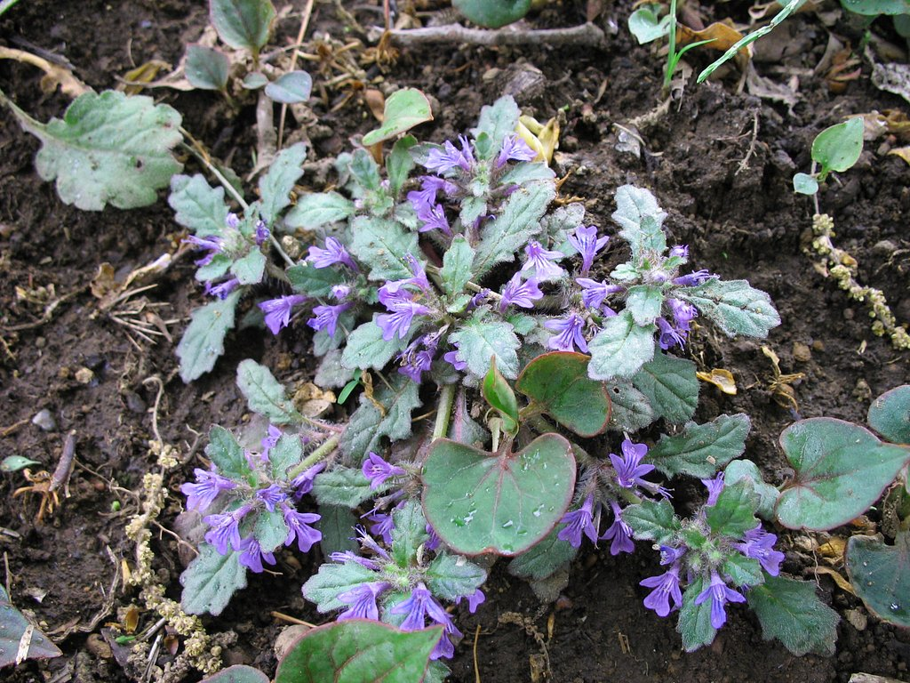 Photograph of Ajuga decumbens,taken in Machida city, Tokyo, Japan. (resized)